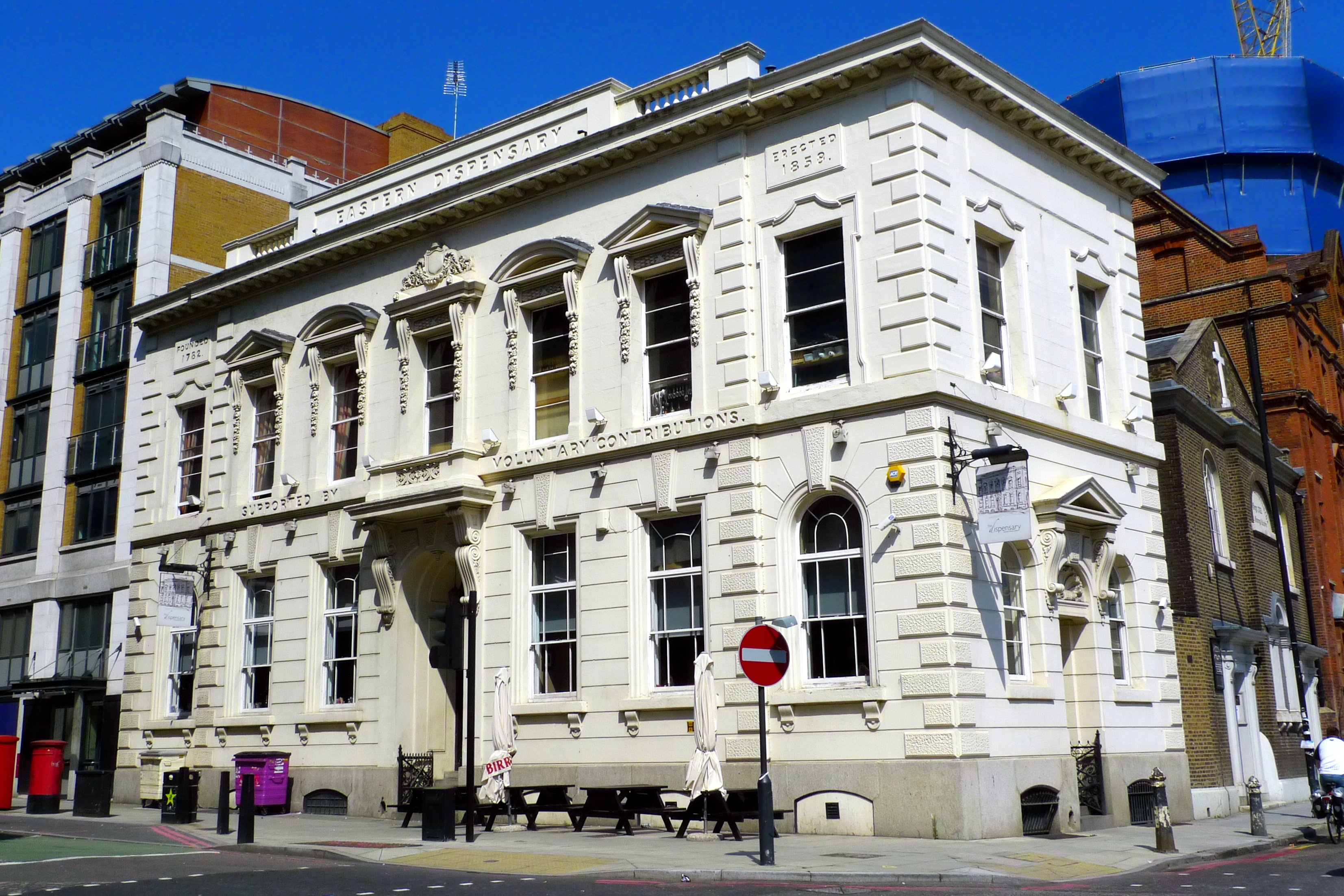 No surprise perhaps, but this used to be a dispensary of medicine to the local poor. It still dispenses medicine of a sort, I suppose, though the clientele are unlikely to be quite so impoverished. (Close-up of the entrance.) Address: 19a Leman Street. Former Name(s): The Old Dispensary. Owner: (website); Regent Inns (former?); Poetry Bars (former). Links: Randomness Guide to London Fancyapint Beer in the Evening (The Old Dispensary)